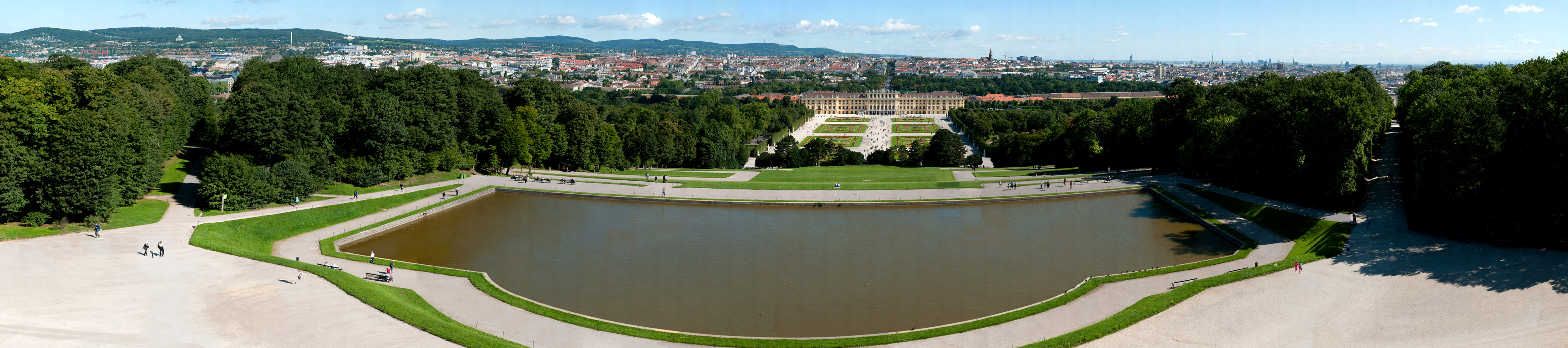 View to Vienna City with Schloss Schönbrunn in the front. Picture taken from Gloriette. Full Resolution image (197.962x56.833) is available at